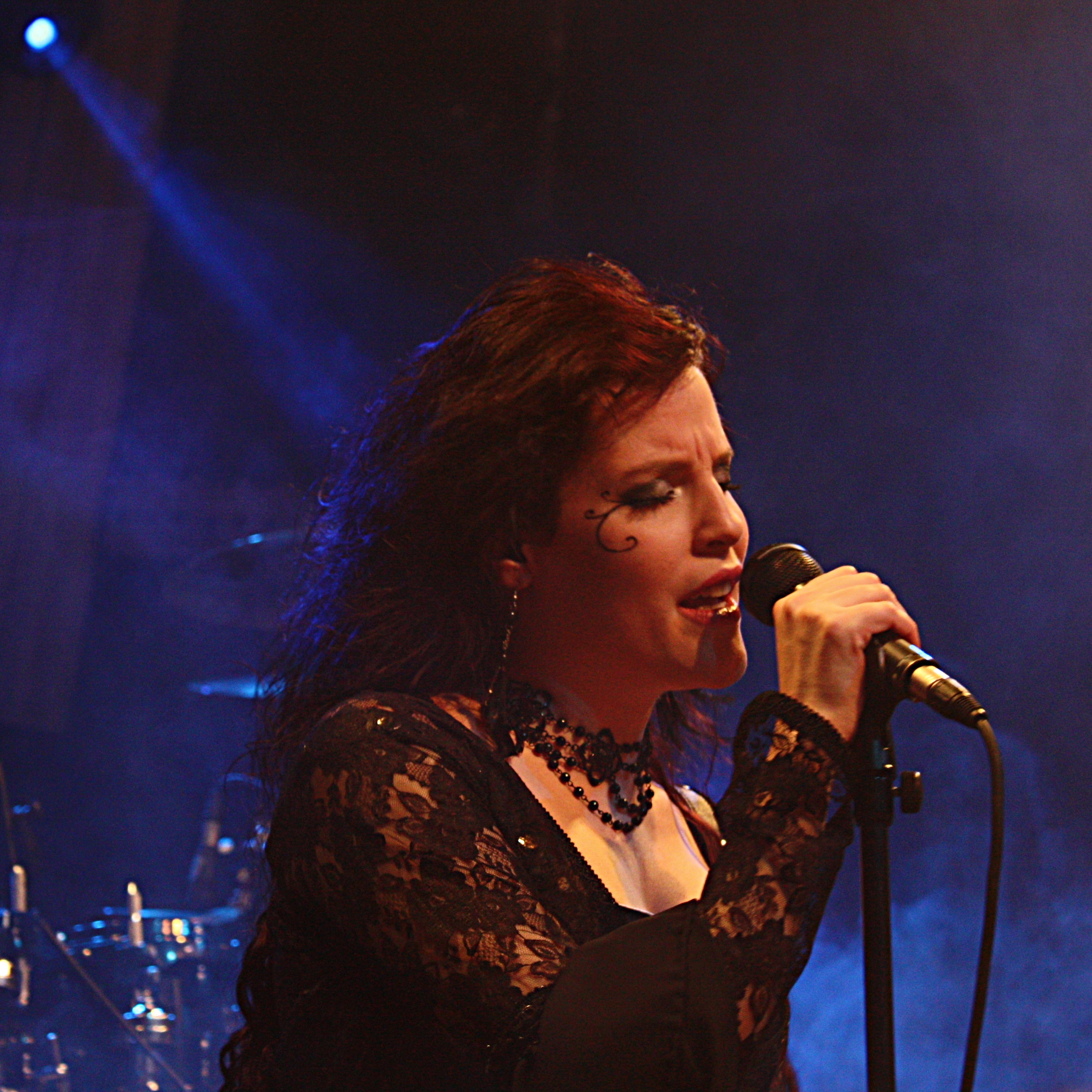 Singer Ailyn from Sirenia (band)